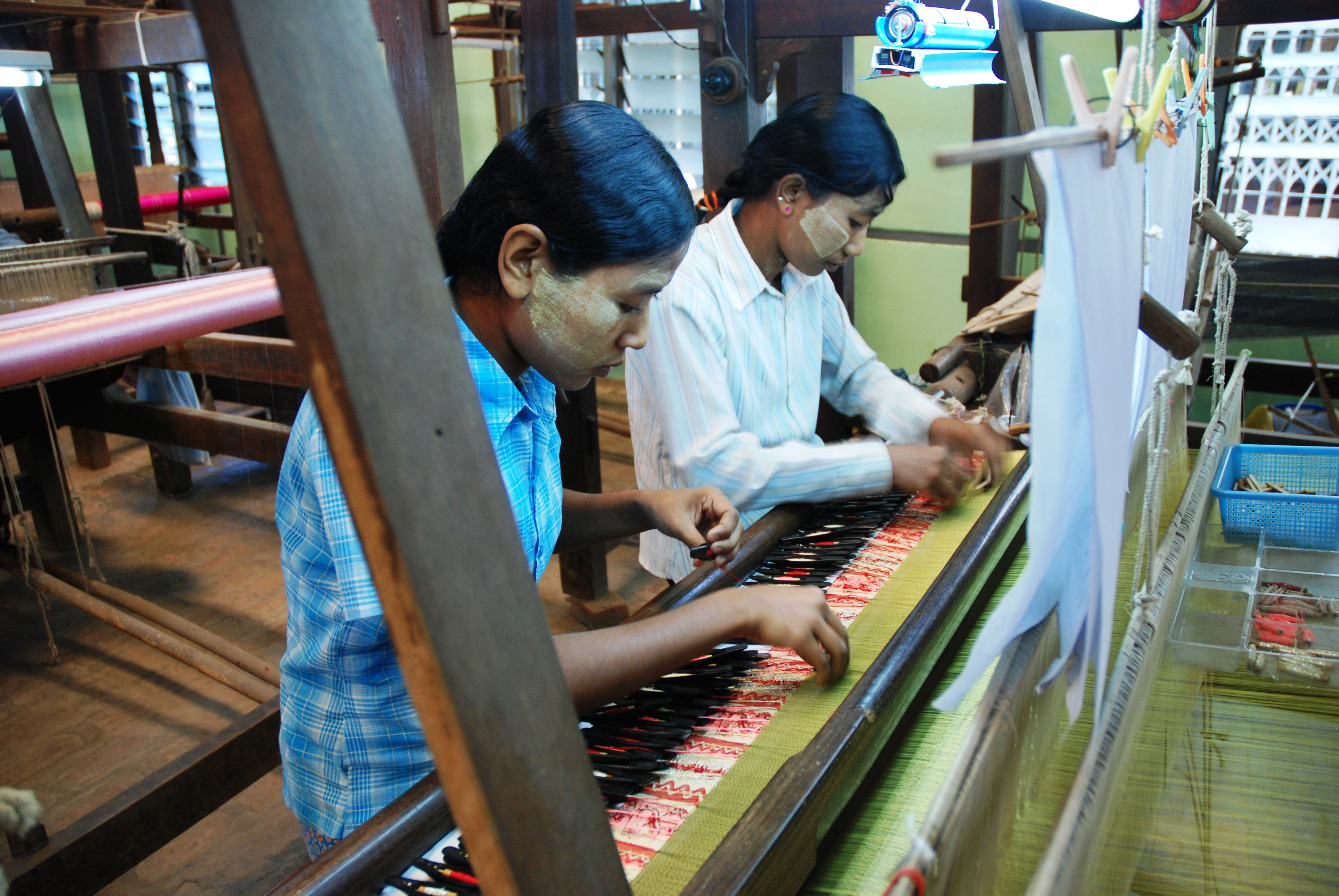 Burmese women weaving silk in Amarapura, Burma